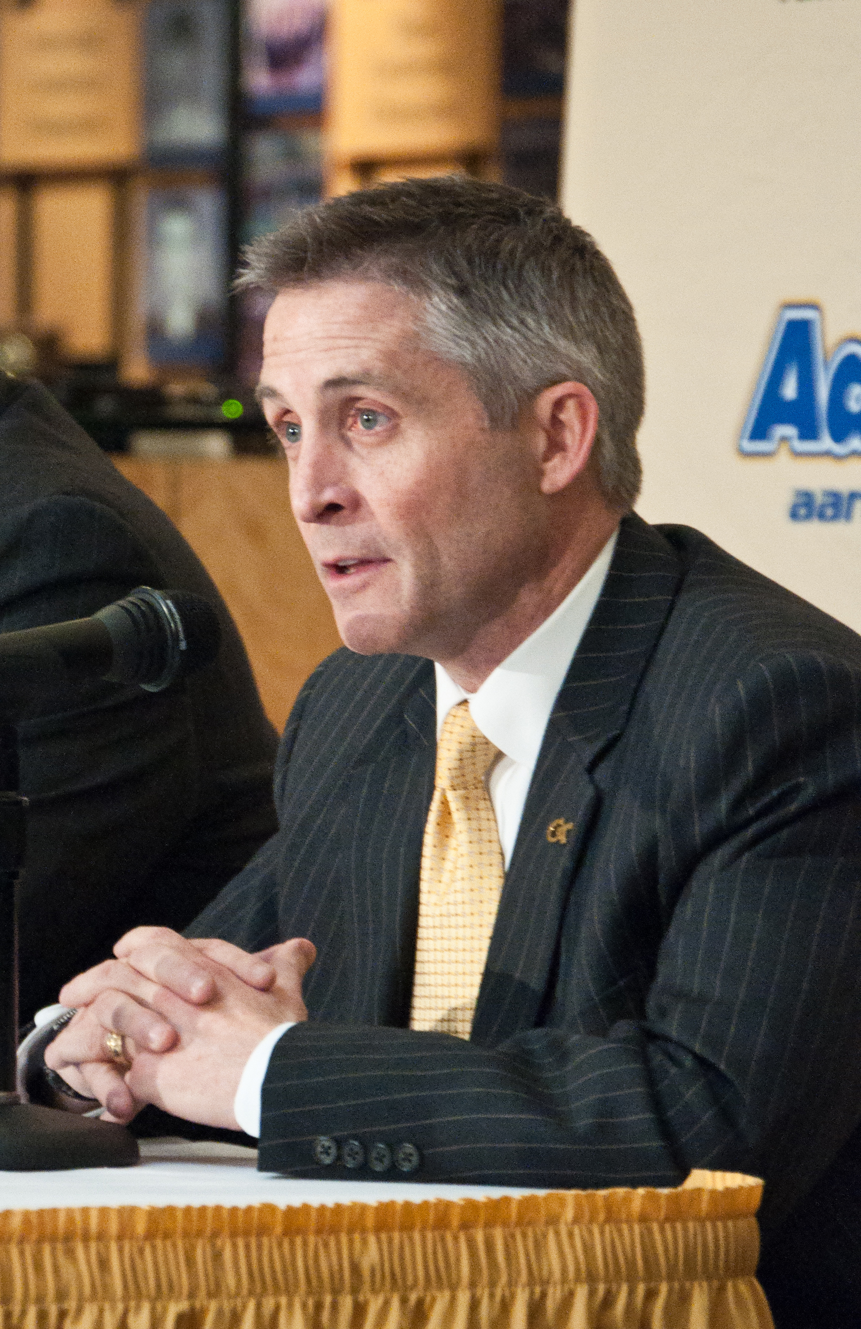 Brian Gregory at his first press conference as coach of Georgia Tech men's basketball